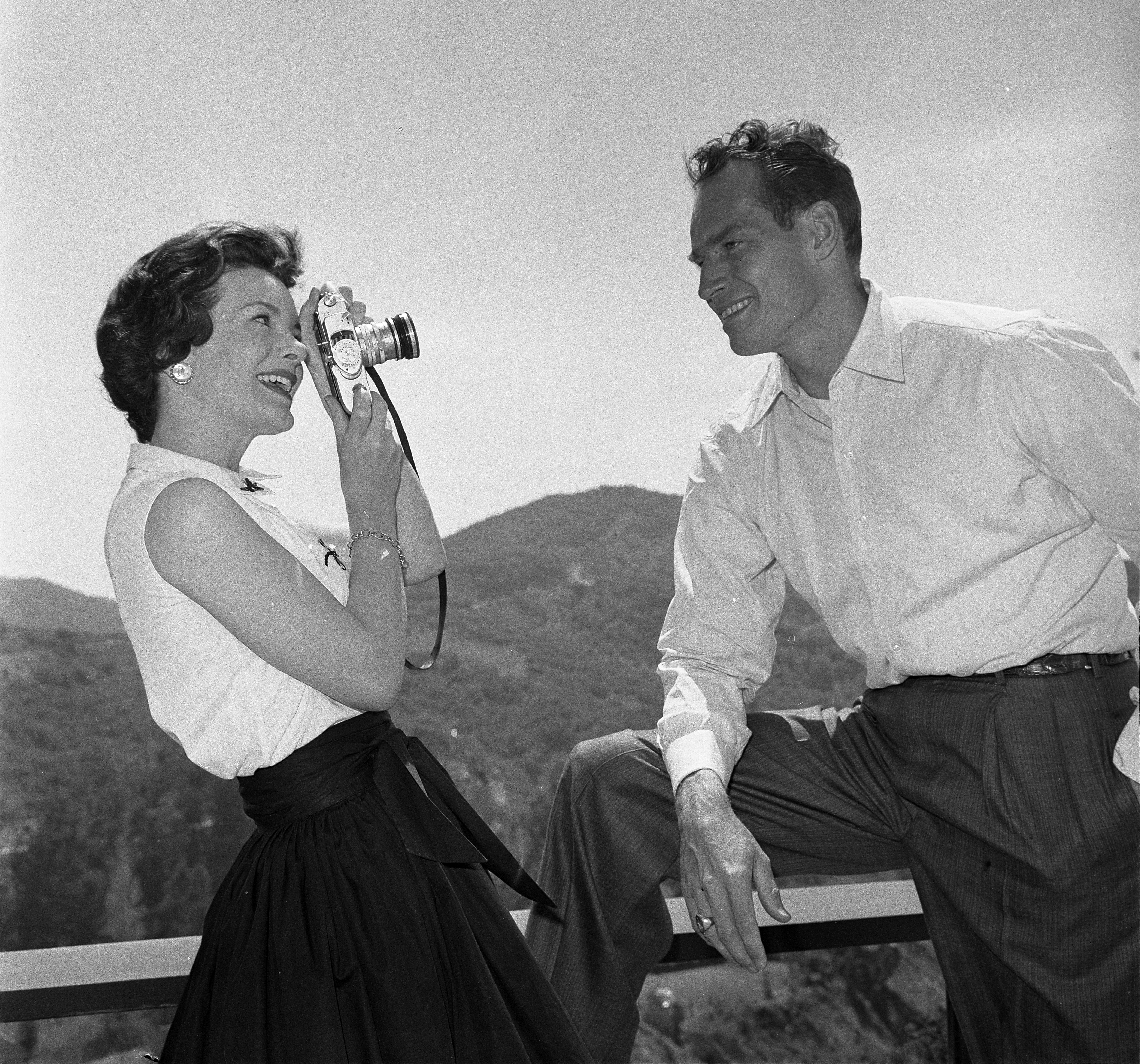 Title: Charlton Heston poses for his wife at their home in Beverly Hills, Calif., 1960 Published caption:BEST ACTOR-Charlton Heston poses for his wife Lydia in their hilltop Beverly Hills home yesterday less than 24 hours after winning an Oscar as the best actor of 1959 for his role in "Ben-Hur," the movie that won total of 11 Oscars. Publication:Los Angeles Times Publication date:Wed., April 6, 1960 Source:Los Angeles Times photographic archive, UCLA Library